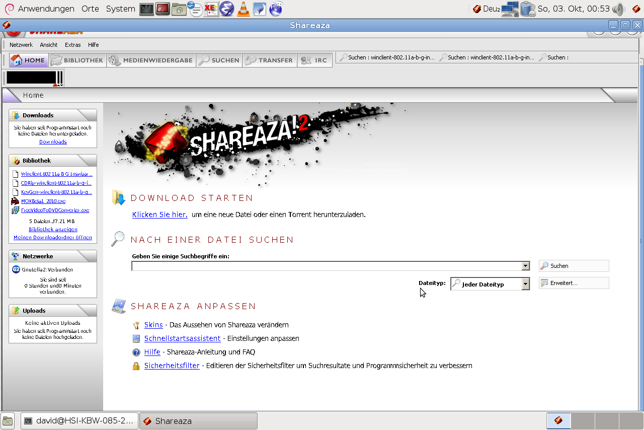 Shareaza executed under Wine under Debian GNU/Linux, Gui is GNOME